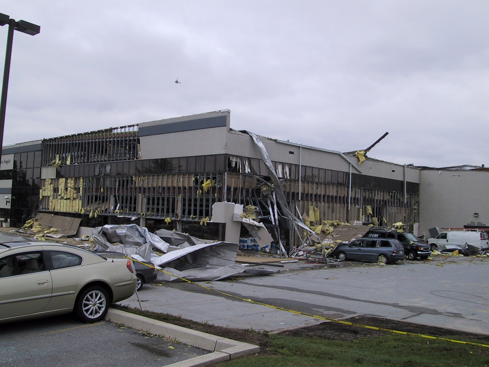 Damage from a tornado spawned by Hurricane Jeanne in Delaware in September of 2004